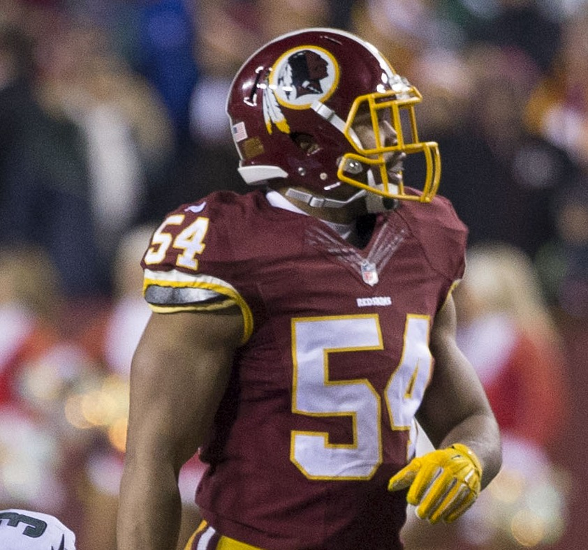 Outside linebacker, Trevardo Williams, in a game against the Philadelphia Eagles on December 20, 2014.